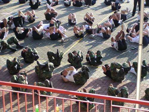 Another common form of calisthenics used in the Ncc for Physical Training or for punishment is the Crunches. To add difficulty to the exercise, cadets are usually attired in their long slacks and heavy boots and required to maintain that position for long periods of time.